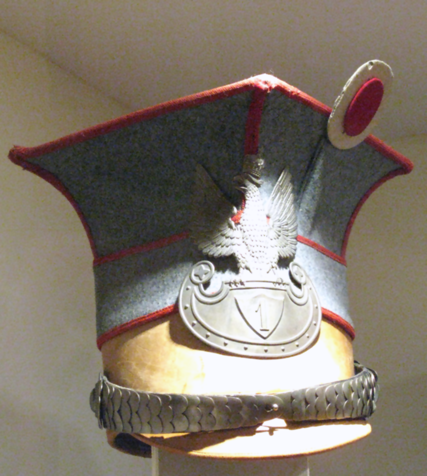 Shako of wachtmeister of 1st Uhlan Regiment of Polish Legions 1914-1918